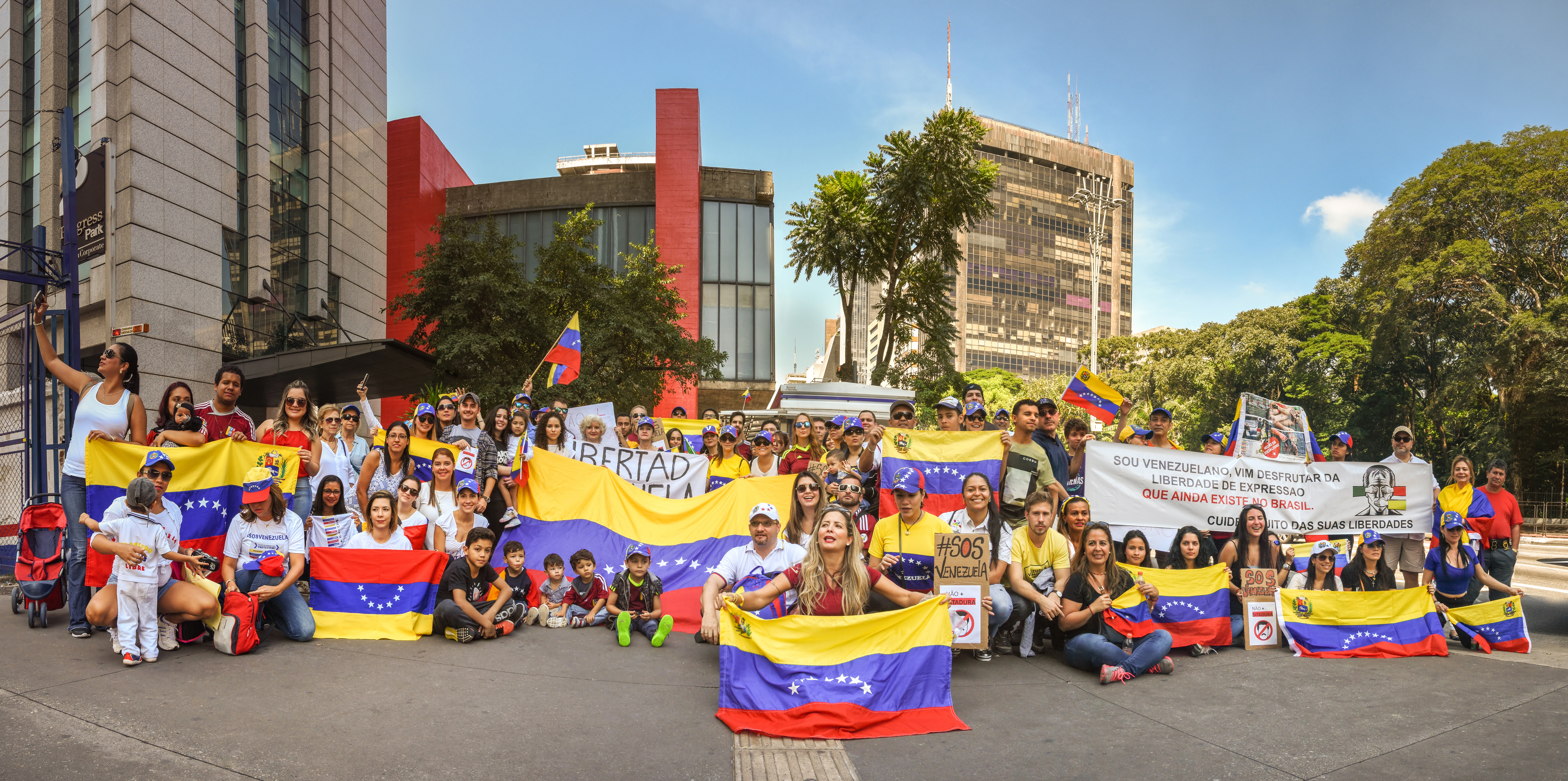 Protests opposing Bolivarian Revolution in São Paulo, Brazil